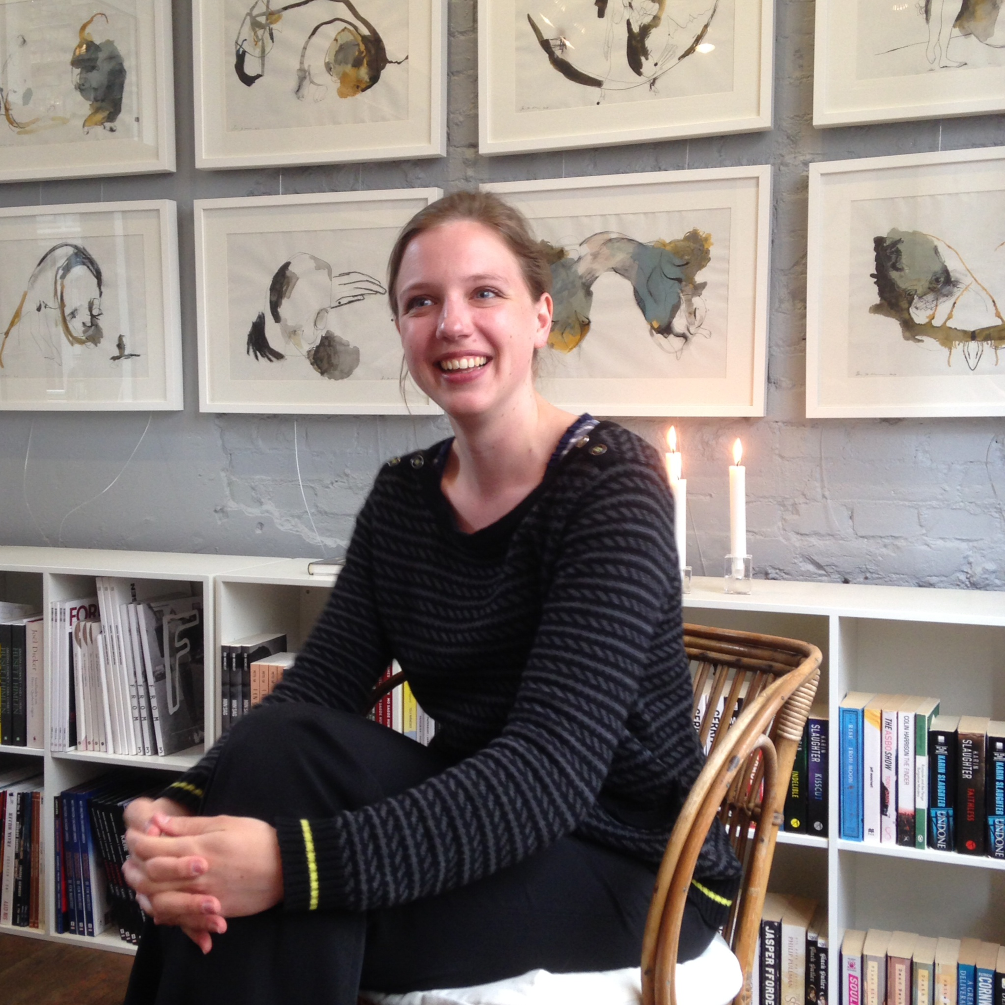 Image of Danish MEP Rina Ronja Kari being interviewed about her grandfather's book Bag Spaniens bjerge.